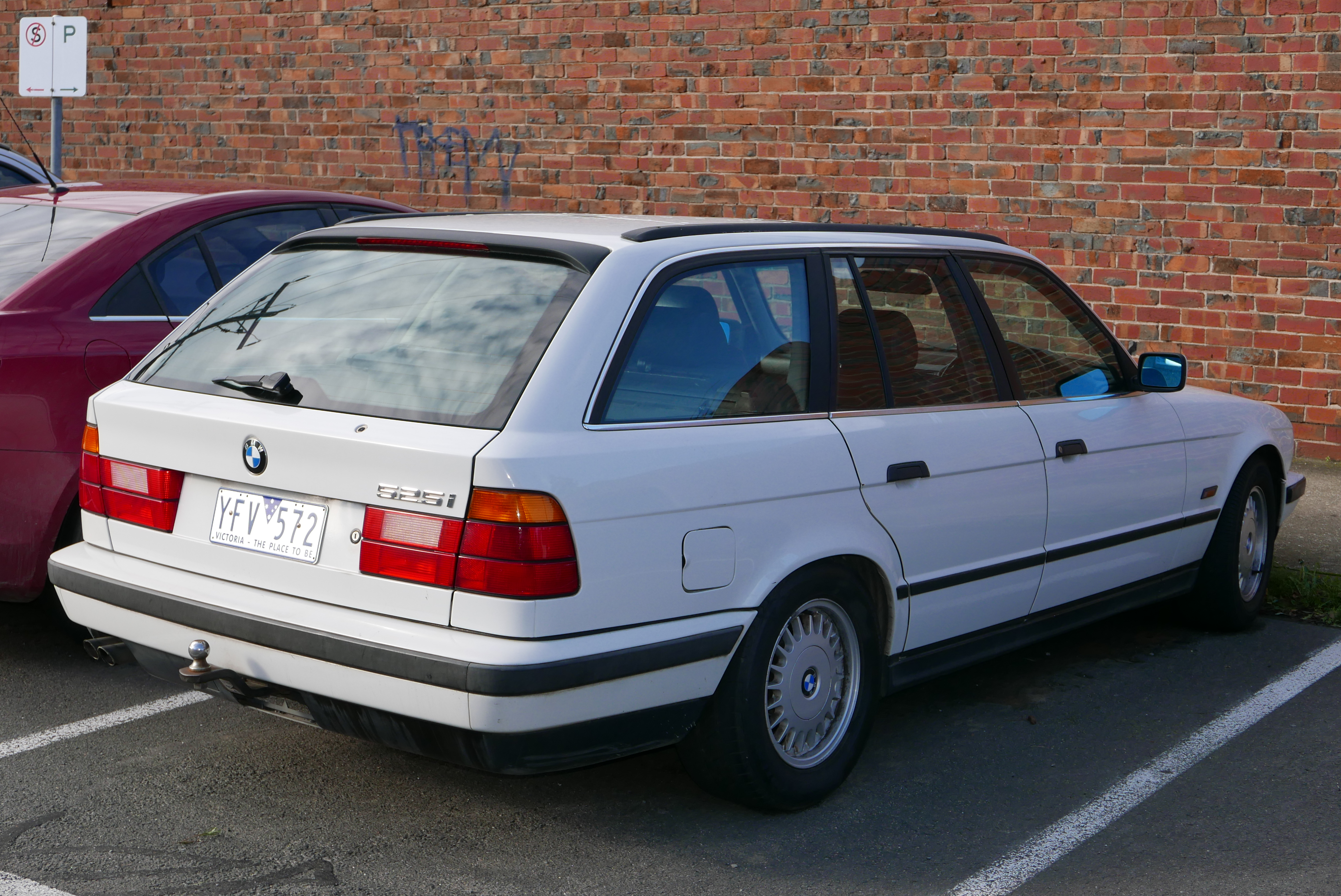 1995 BMW 525i (E34) Touring station wagon. Photographed in Northcote, Victoria, Australia. Vehicle registration enquiry results Jurisdiction Victoria Registration YFV572 Chassis code WBAHJ62010GD12898 Engine code 30388158256S2 Compliance date 1996-07 Year of manufacture 1995 (not a typo)